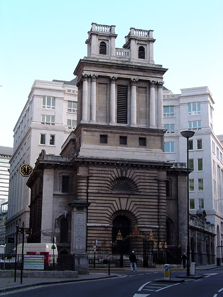 Exterior of St Mary Woolnoth, City of London